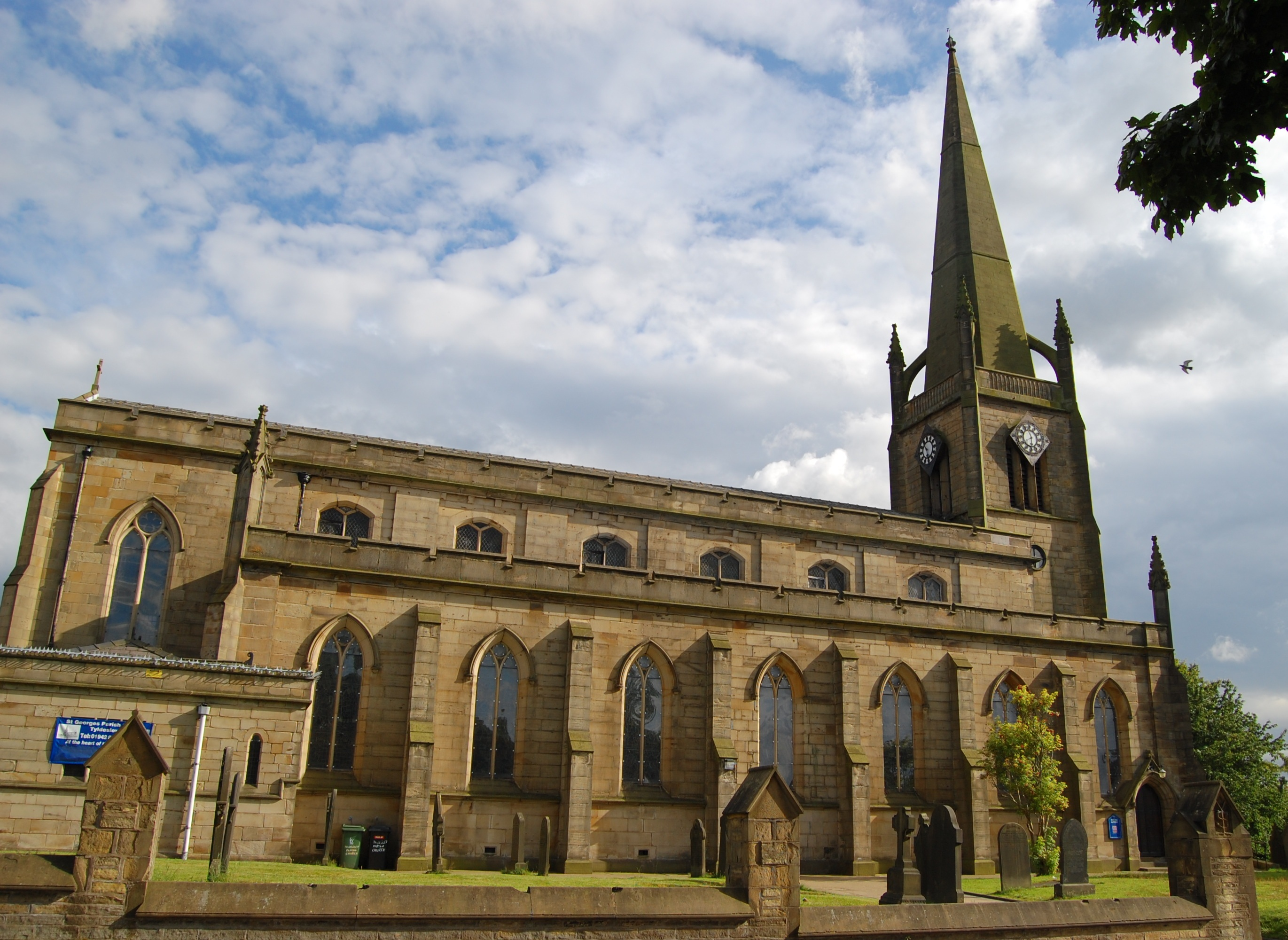 St George's parish church, in Tyldesley, Greater Manchester, England, seen from the north